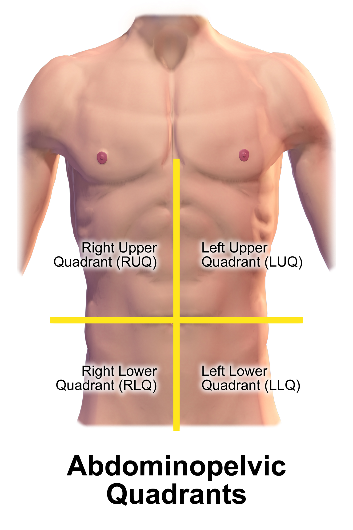 Abdominopelvic Quadrants. This image was donated by Blausen Medical. Please visit our website to see more medical illustrations and animations.